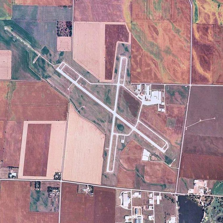 USGS digital orthophoto of Spencer Municipal Airport in Iowa